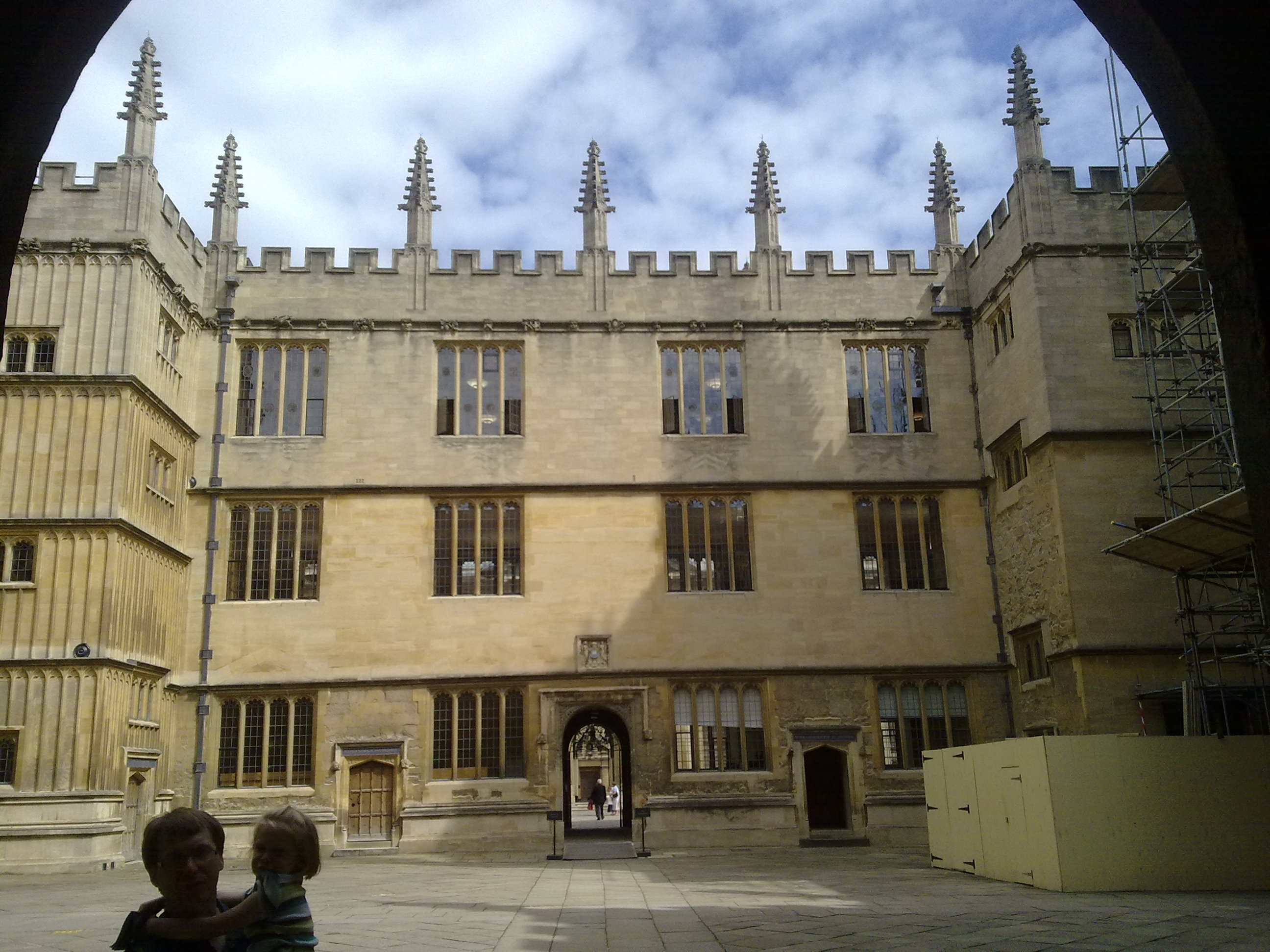 The courtyard of the Bodelian Library, looking out the north gate from the south gate.